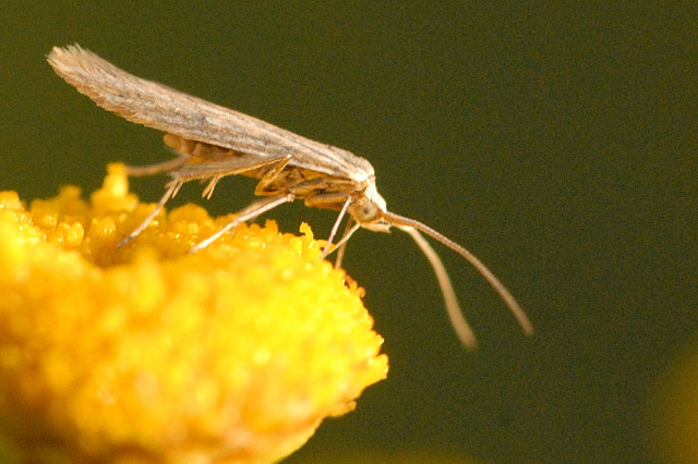 Coleophora striatipennella from Commanster, Belgian High Ardennes .